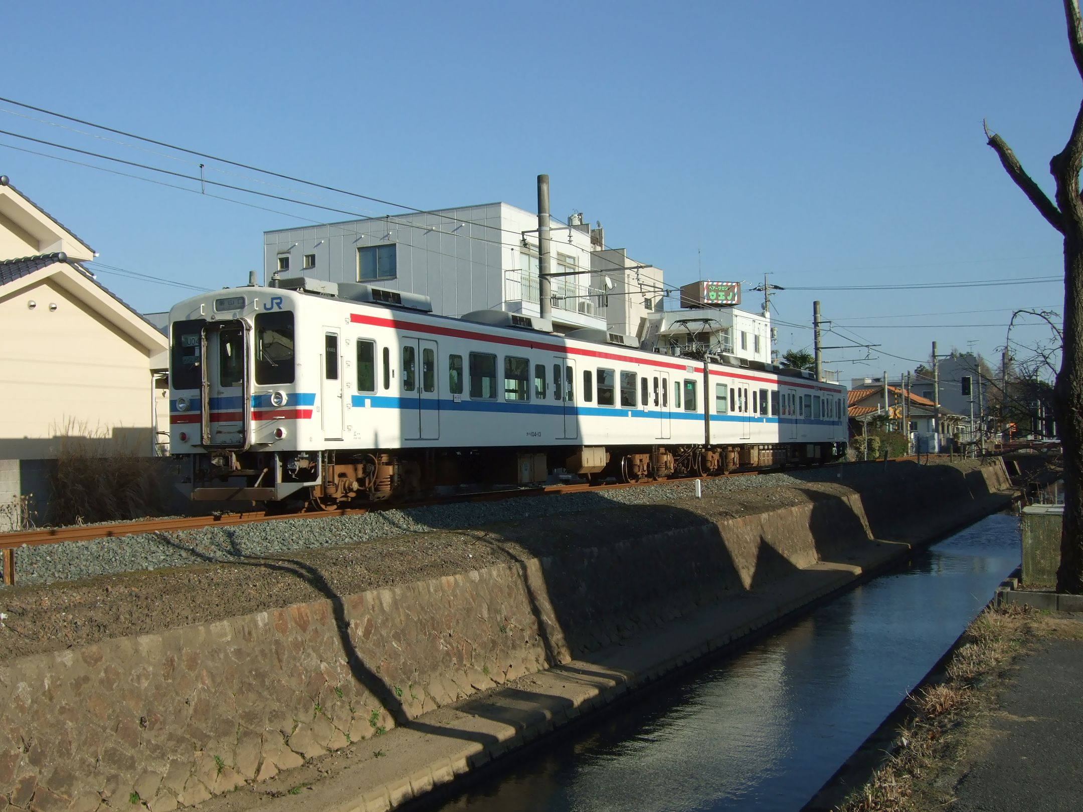 A JR West 105 series EMU (KuHa 104-13 + KuMoHa 105-13) on an Ube Line local service between Kotoshiba station and Ube-shinkawa station